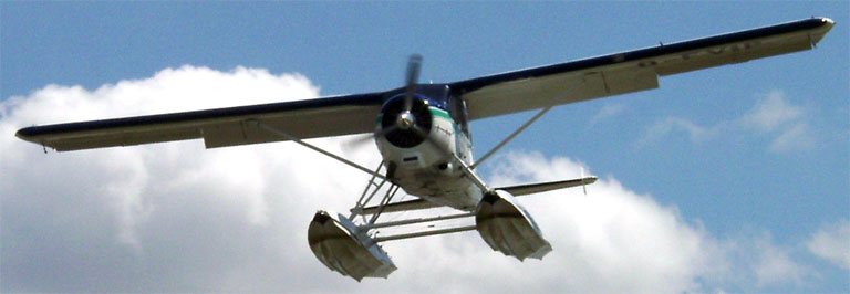 Water plane